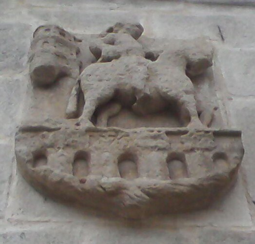 Escudo de la Villa de Ledesma. 1576. Alhóndiga del Obispo de Útica, Pedro del Campo. (1606) Ledesma, Salamanca.